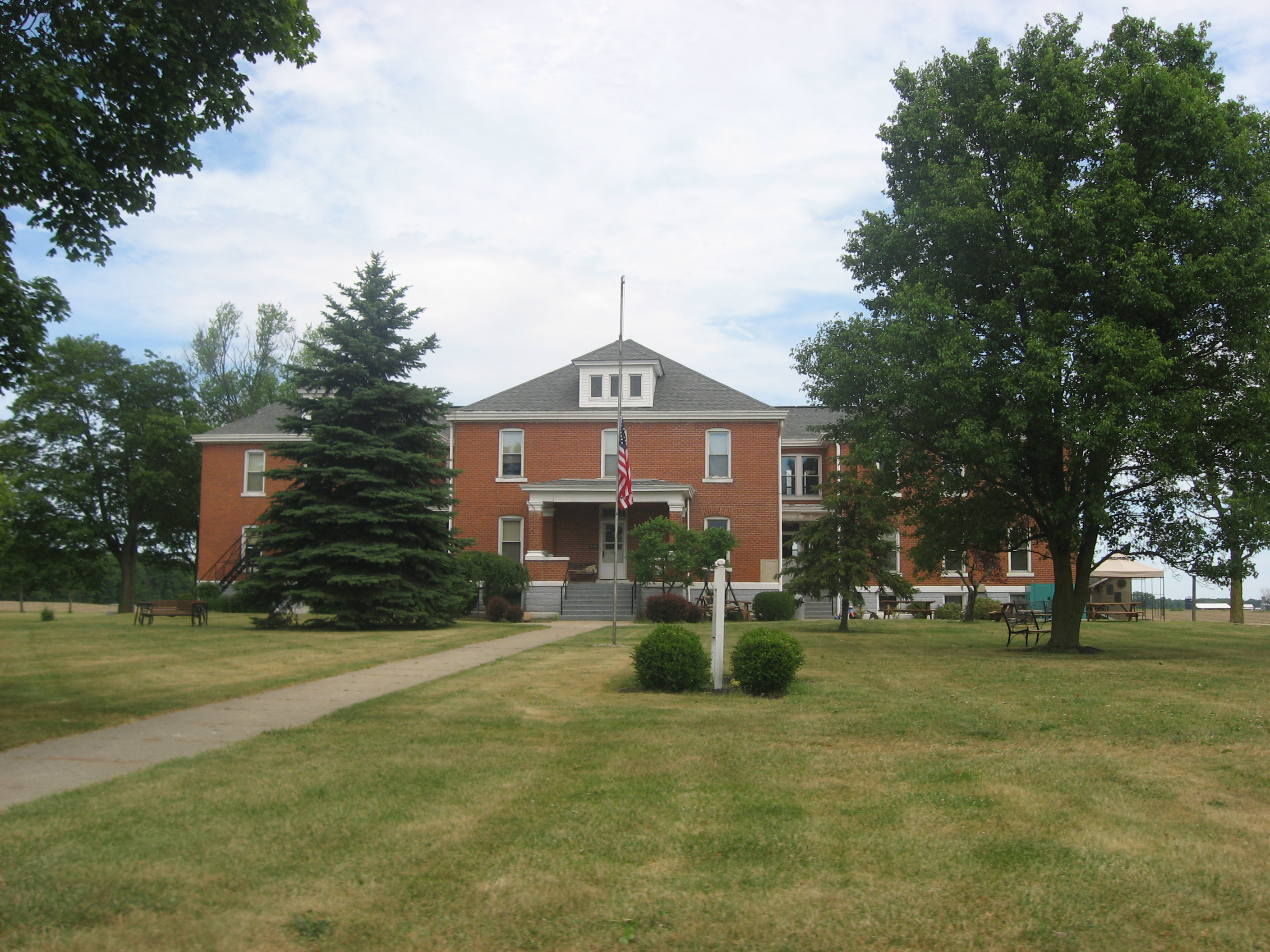 Front of the former DeKalb County Home, located on County Road 40 northeast of Garrett in Keyser Township, DeKalb County, Indiana, United States. Built in 1908, it is listed on the National Register of Historic Places.